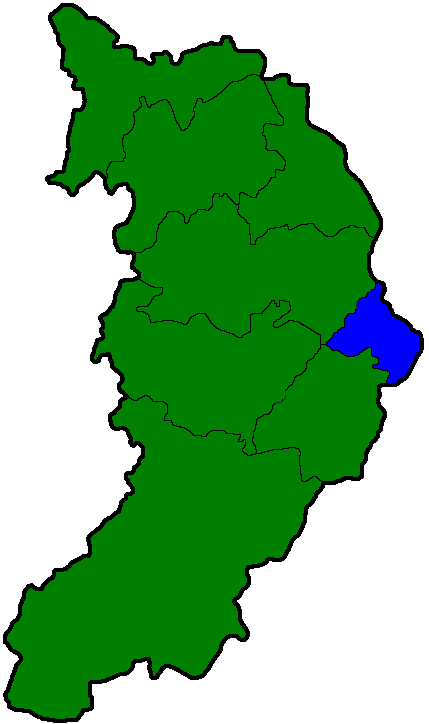 District (rayon) locator in Khakassia